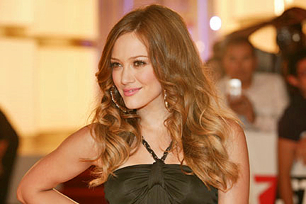 eTalk Star! Schmooze, Toronto International Film Festival party.